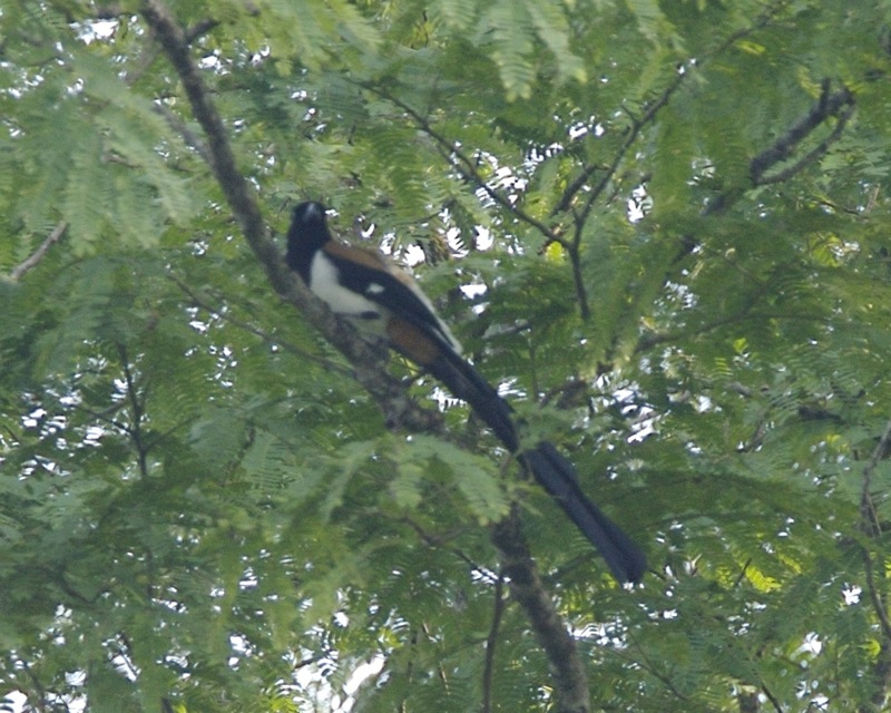 White-bellied Treepie (Dendrocitta leucogastra) Location: Thattekad, Kerala, India October 8, 2007 Poor distant shot but will have to do till another opportunity comes up. Endemic to SW India not as widespread as indicated in map: _Q0S0252